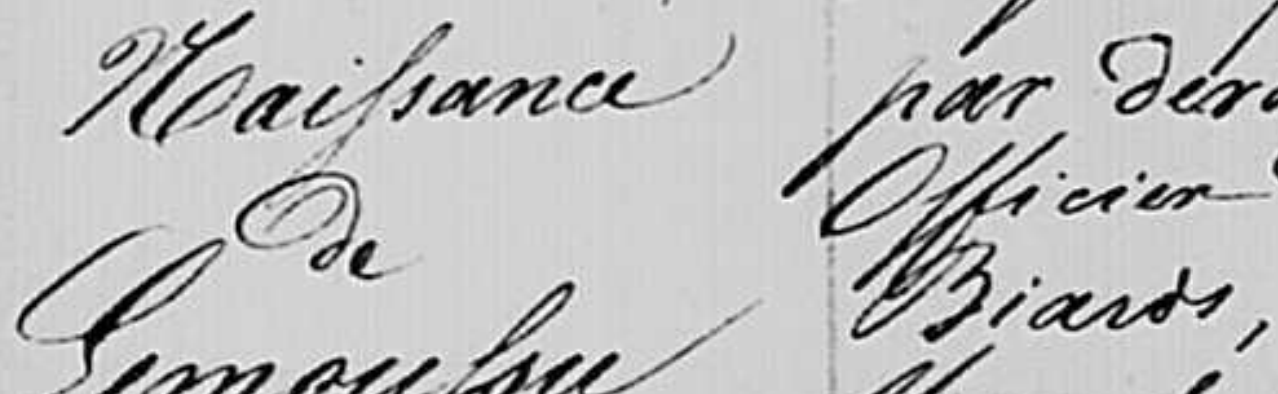 Sample of ß in French (English round hand) in a birth certificate of 1860: Naissance spelled Naißance.